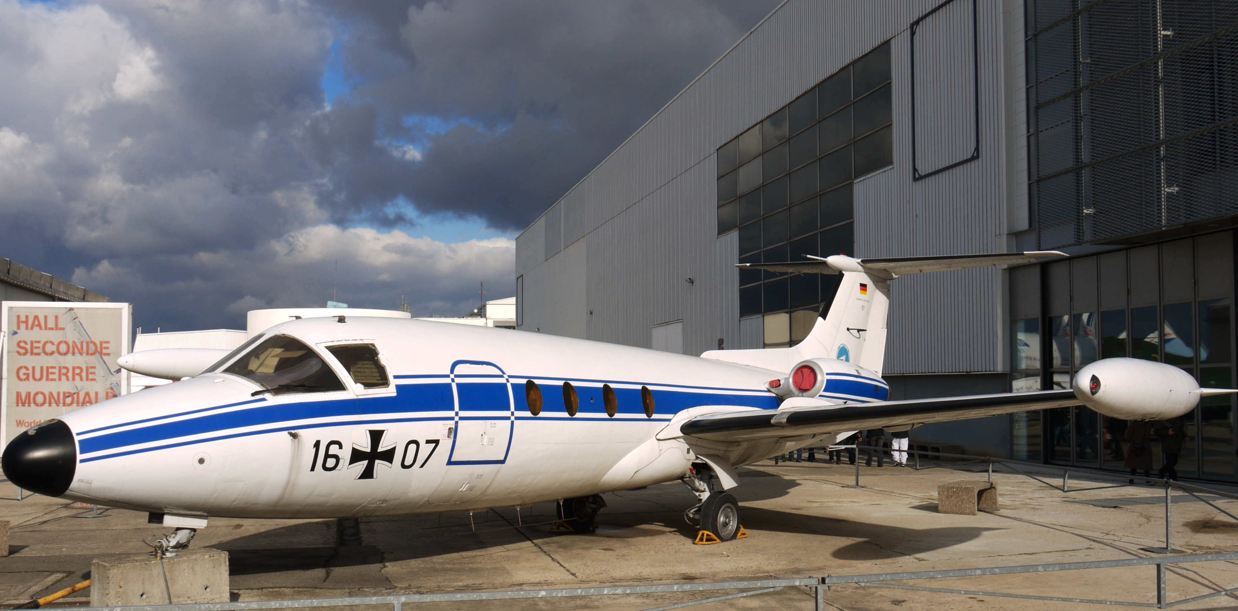 Twin-engine business jet HFB 320 Hansajet (1964), Museum of Air and Space Paris, Le Bourget (France)